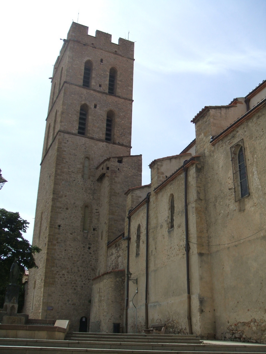 Argelès-sur-Mer (département of Pyrénées-Orientales, Languedoc-Roussillon région, France) : church of Notre-Dame del Prat (XIVth century, upper parts rebuild in the XVIIth - XIXth centuries) ; southern view